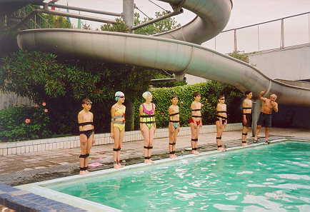 28 may 2004. Tbilisi. Laguna vere